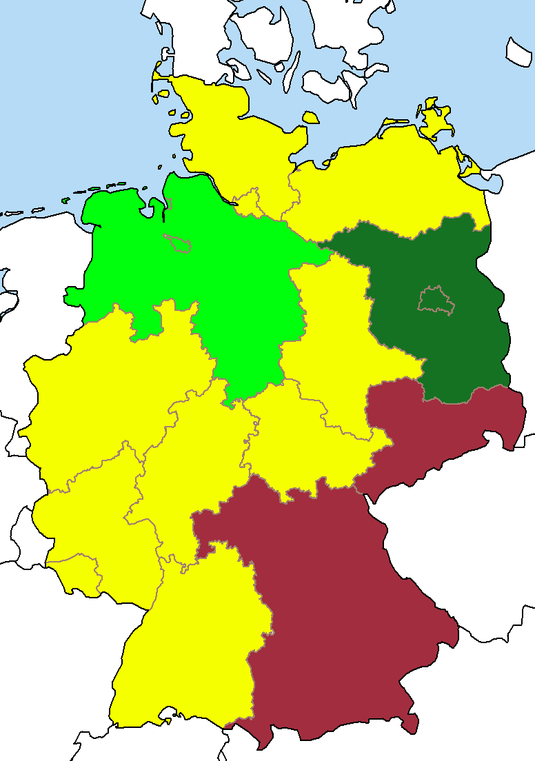 Residency obligation in Germany